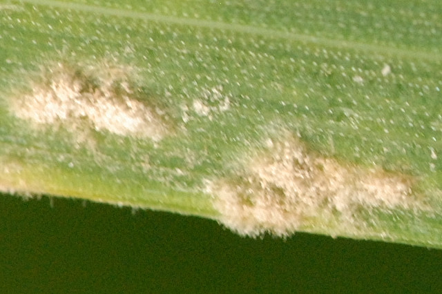 Blumeria graminis from Commanster, Belgium. If you think this is a different taxon, please contact James Lindsey.